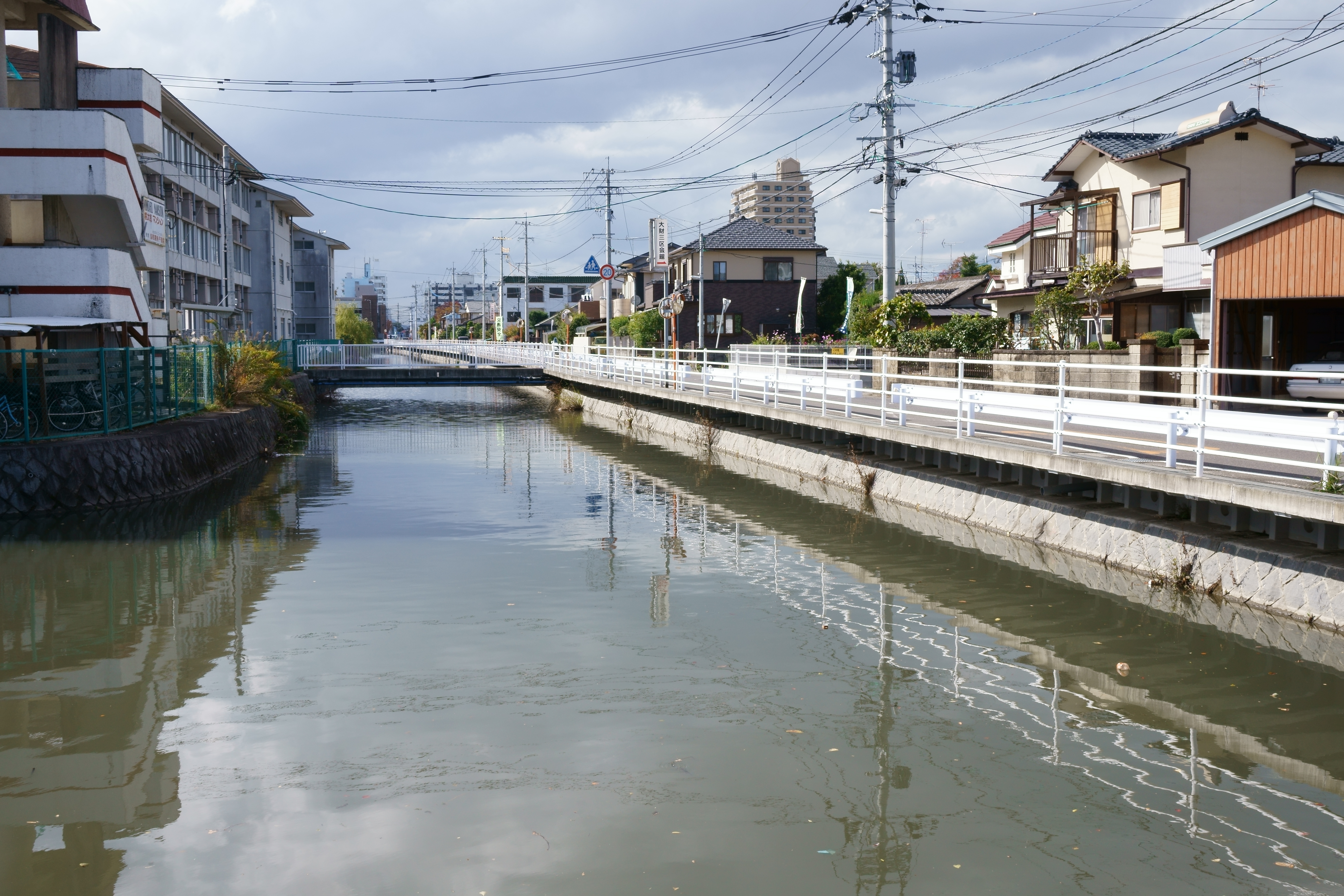 Jikkenbori River near Jun'yū Elementary School. Takagimachi and Ōtakara in Saga, Saga, Japan.